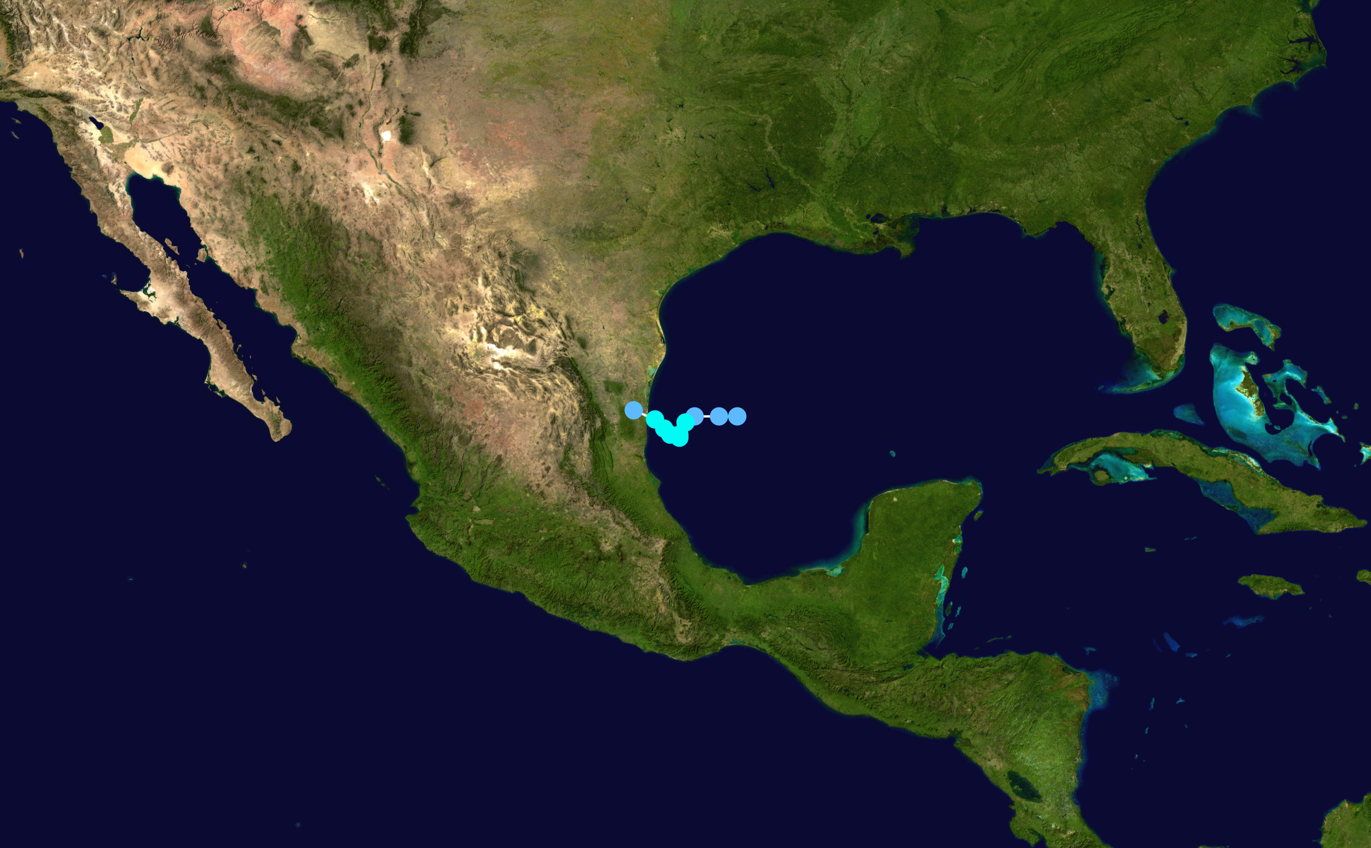 Track map of Tropical Storm Gabrielle of the 1995 Atlantic hurricane season. The points show the location of the storm at 6-hour intervals. The colour represents the storm's maximum sustained wind speeds as classified in the Saffir–Simpson scale (see below), and the shape of the data points represent the nature of the storm, according to the legend below. Saffir–Simpson scale Tropical depression≤38 mph≤62 km/h Category 3111–129 mph178–208 km/h Tropical storm39–73 mph63–118 km/h Category 4130–156 mph209–251 km/h Category 174–95 mph119–153 km/h Category 5≥157 mph≥252 km/h Category 296–110 mph154–177 km/h Unknown Storm type Tropical cyclone Subtropical cyclone Extratropical cyclone / Remnant low / Tropical disturbance / Monsoon depression